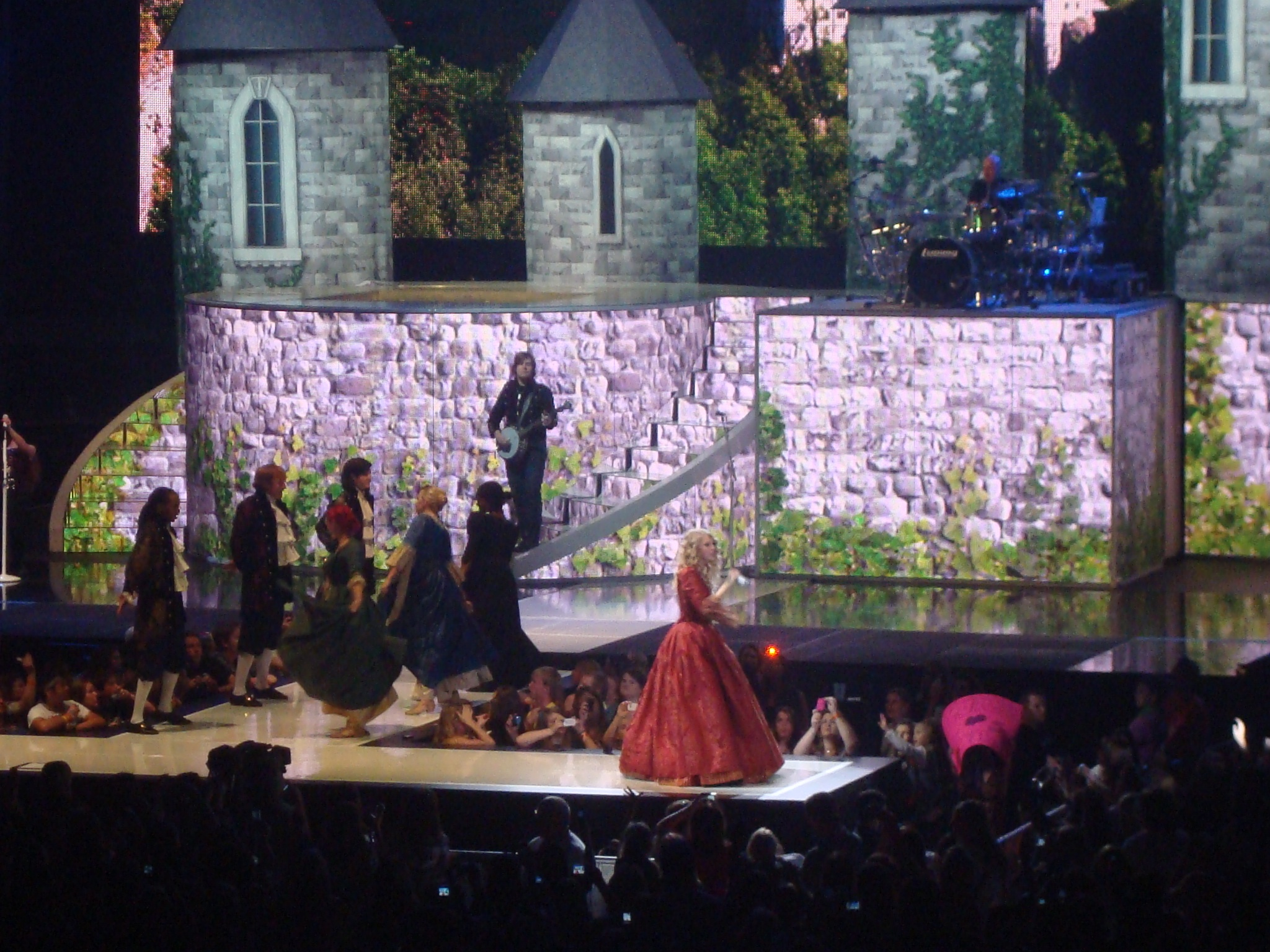 Country pop singer Taylor Swift singing on her Fearless Tour in Austin, Texas.